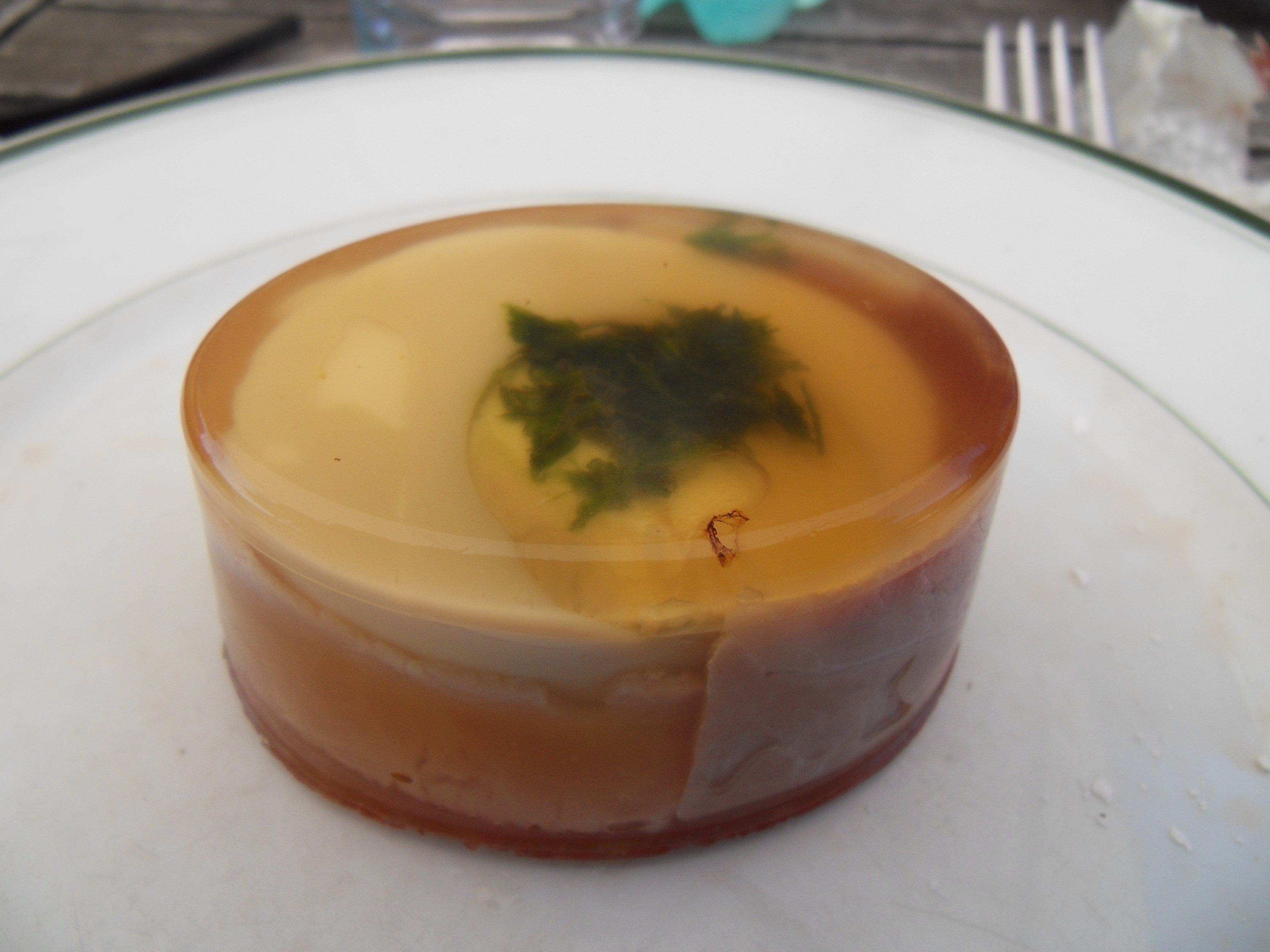 Aspic